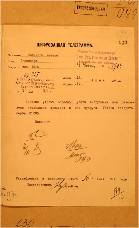 Dispatch from Viena. Sender: colonel barron A.G.Vineken, Russian military agent in Austro-Hungary. June 28, 1914. Text: "This morning in Sarajevo, the heir to the throne and his wife were slain by shots from a revolver. The assassins speak Serbian. No:205. Vineken"